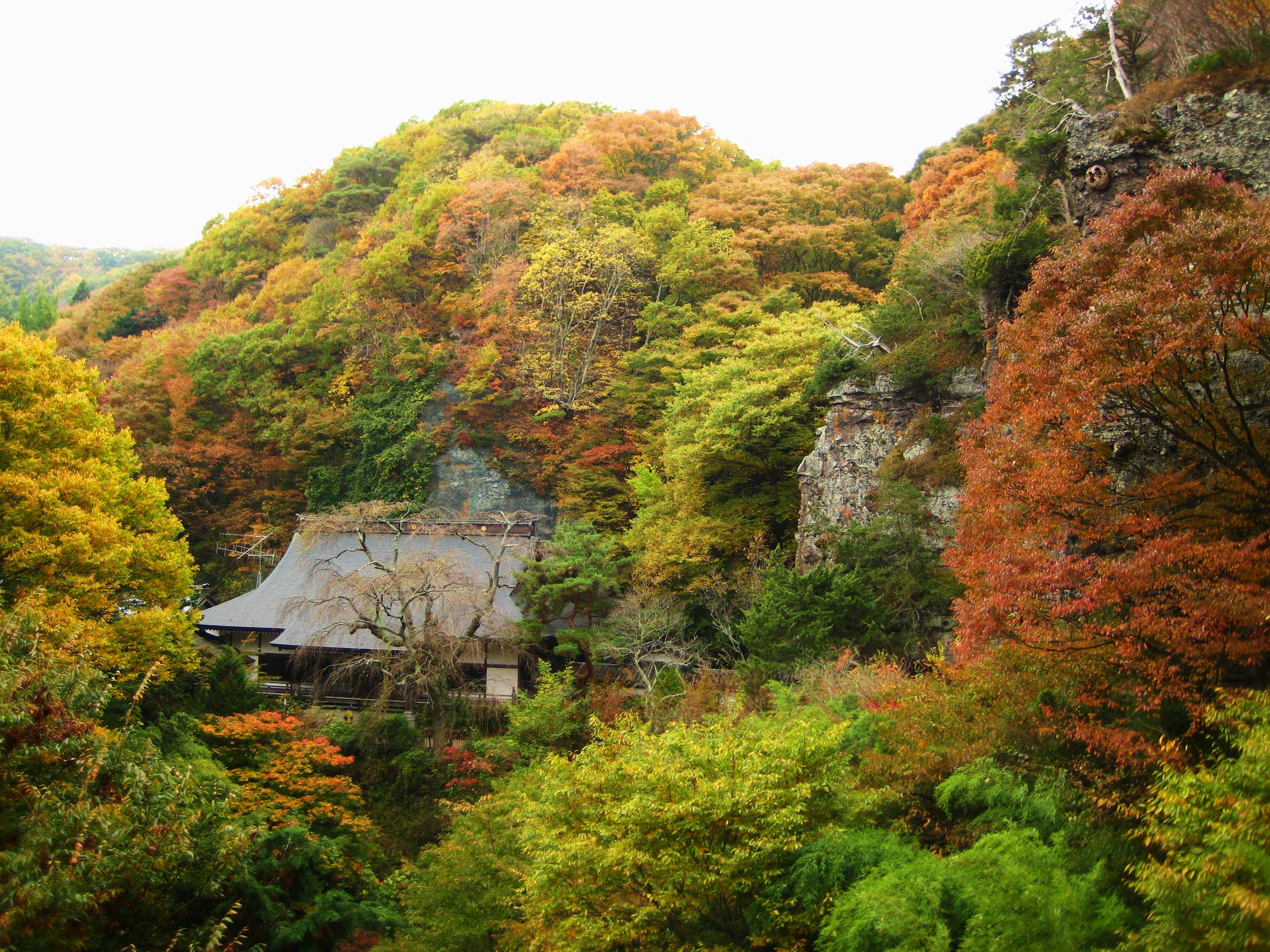 Nunobiki Kannon.